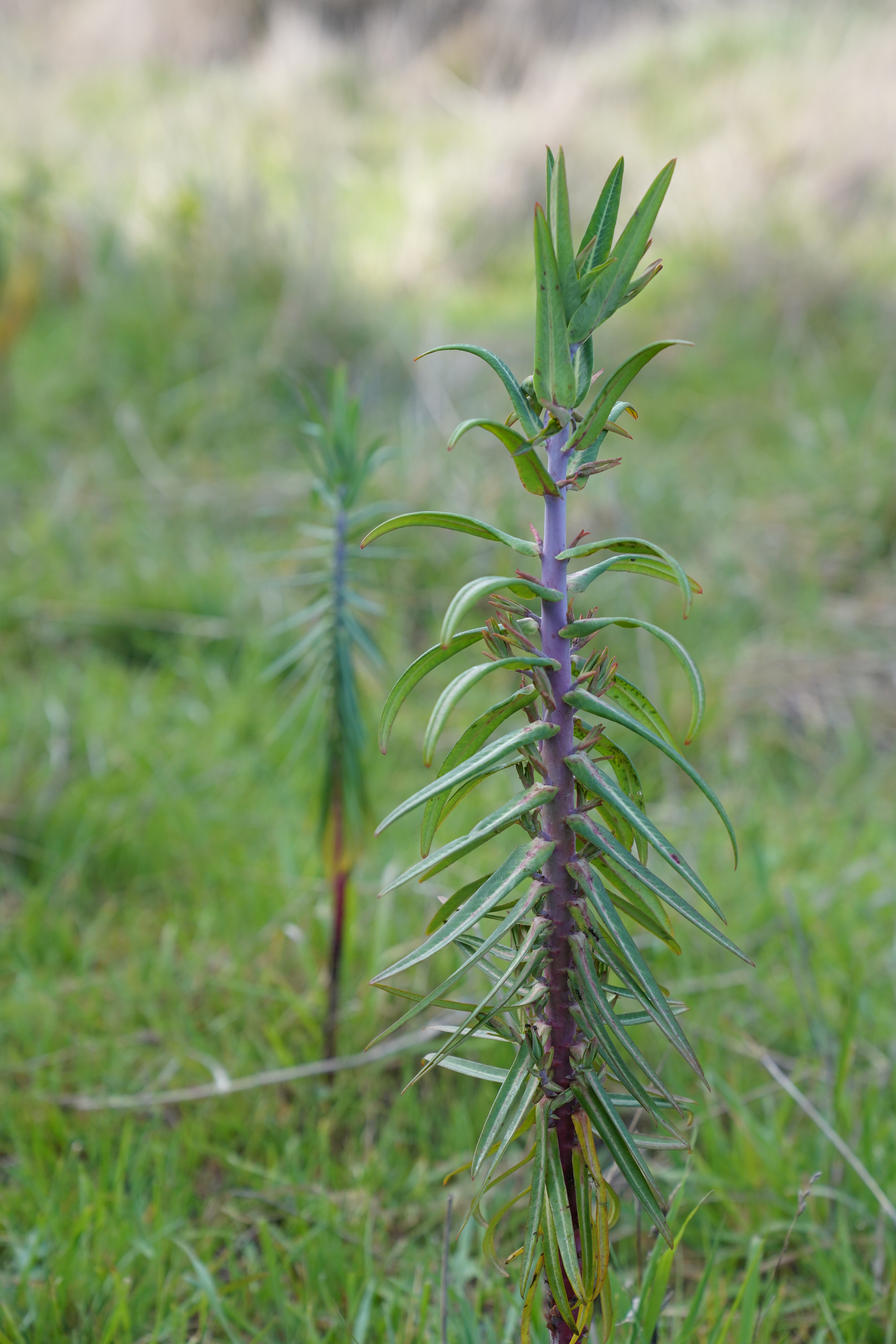 gopher plant at Point Reyes